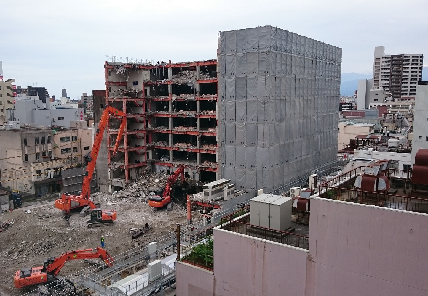 Redevelopment area of Sogawa 3 Chome